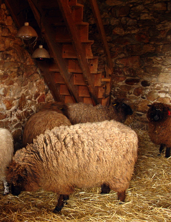 Leicester Longwool sheep [cropped version]